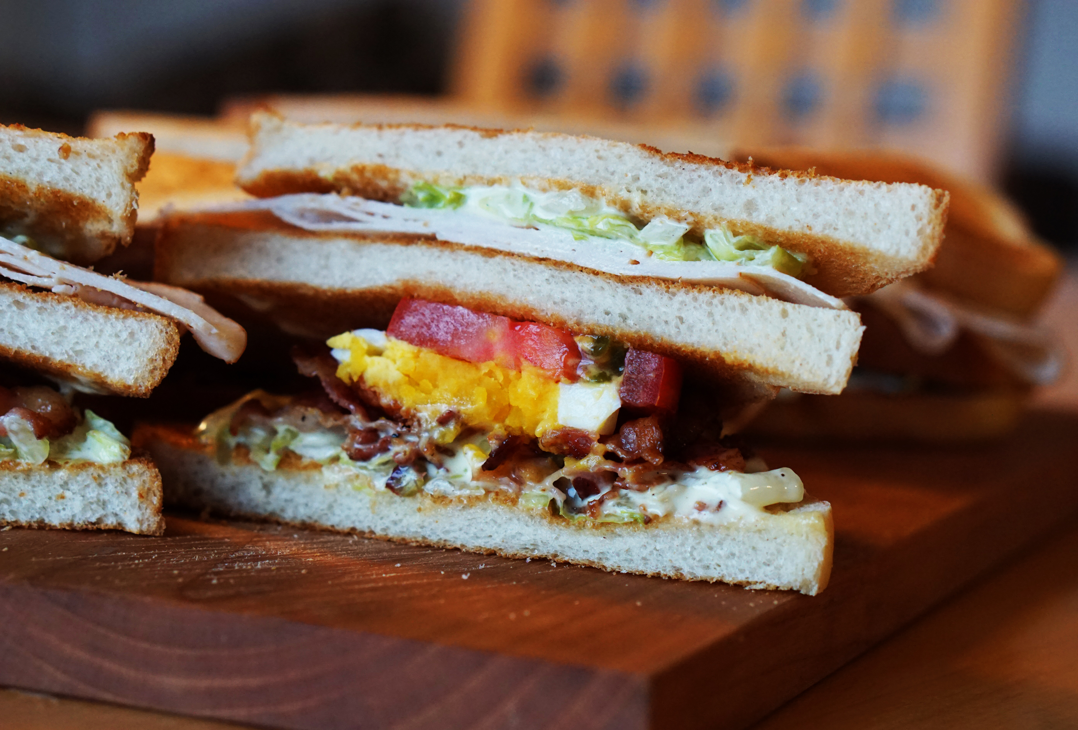 A self-made club sandwich